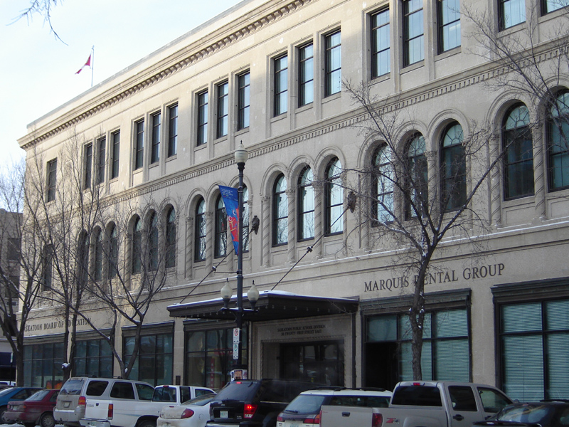 Municipal Heritage Properties:Eaton's Building then evolved into Army and Navy Department Stores and currently is Saskatoon Public Board of Education Offices Central Business District , Core Neighbourhoods SDA, Saskatoon, Saskatchewan, Canada